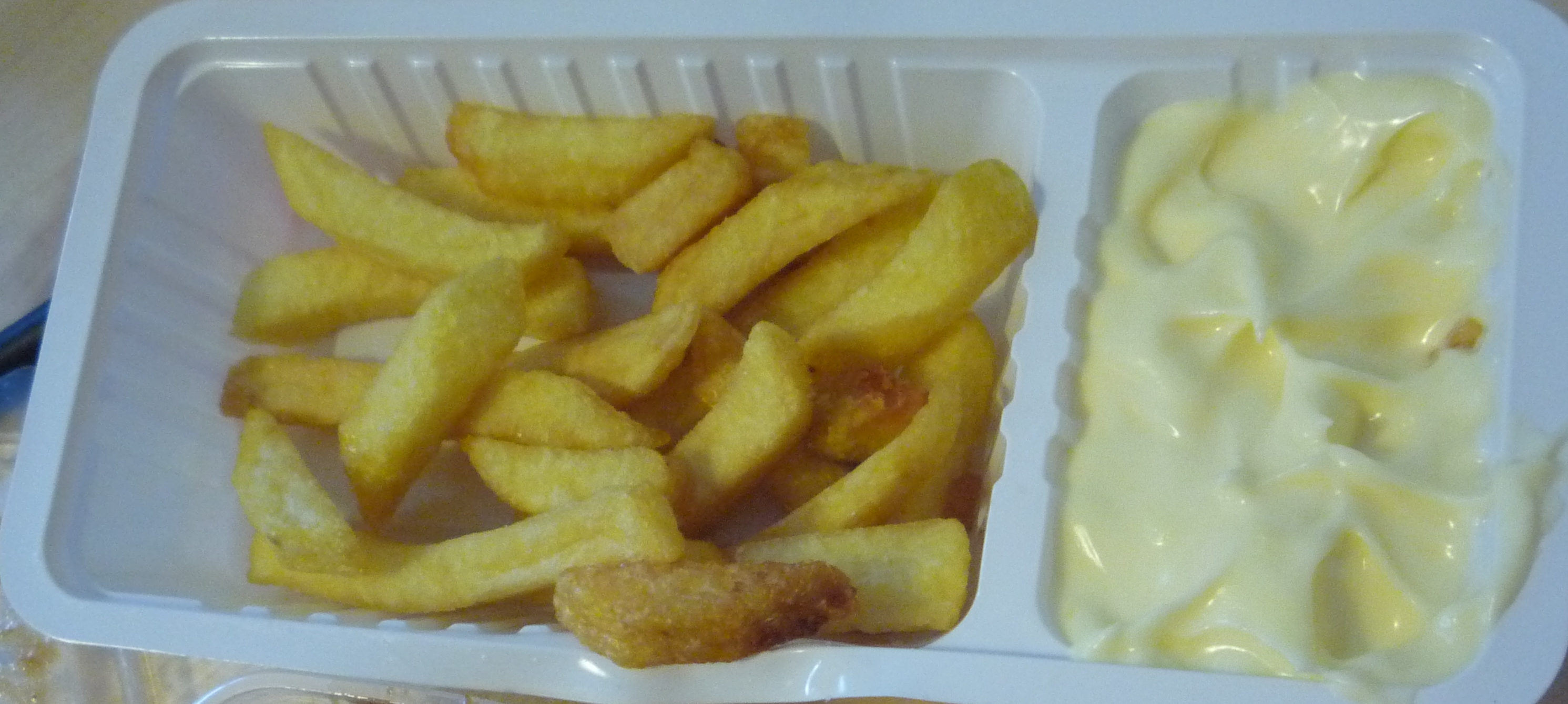 French fries with fritessaus in The Hague, Netherlands. Fritessaus is an accompaniment to French fries, served in the Netherlands, Belgium and Northern France. It is similar to mayonnaise, but with at most 25% fat. It is also sweeter and more vinegary than real mayonnaise.